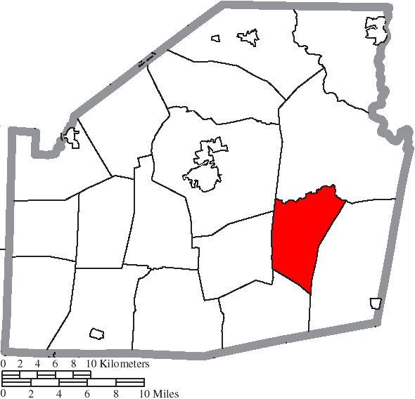 Map of the municipal and township boundaries of Highland County, Ohio, United States, as of the 2000 census, with the location of Marshall Township highlighted. Township borders are shown only in unincorporated areas in order to differentiate incorporated and unincorporated areas more clearly.